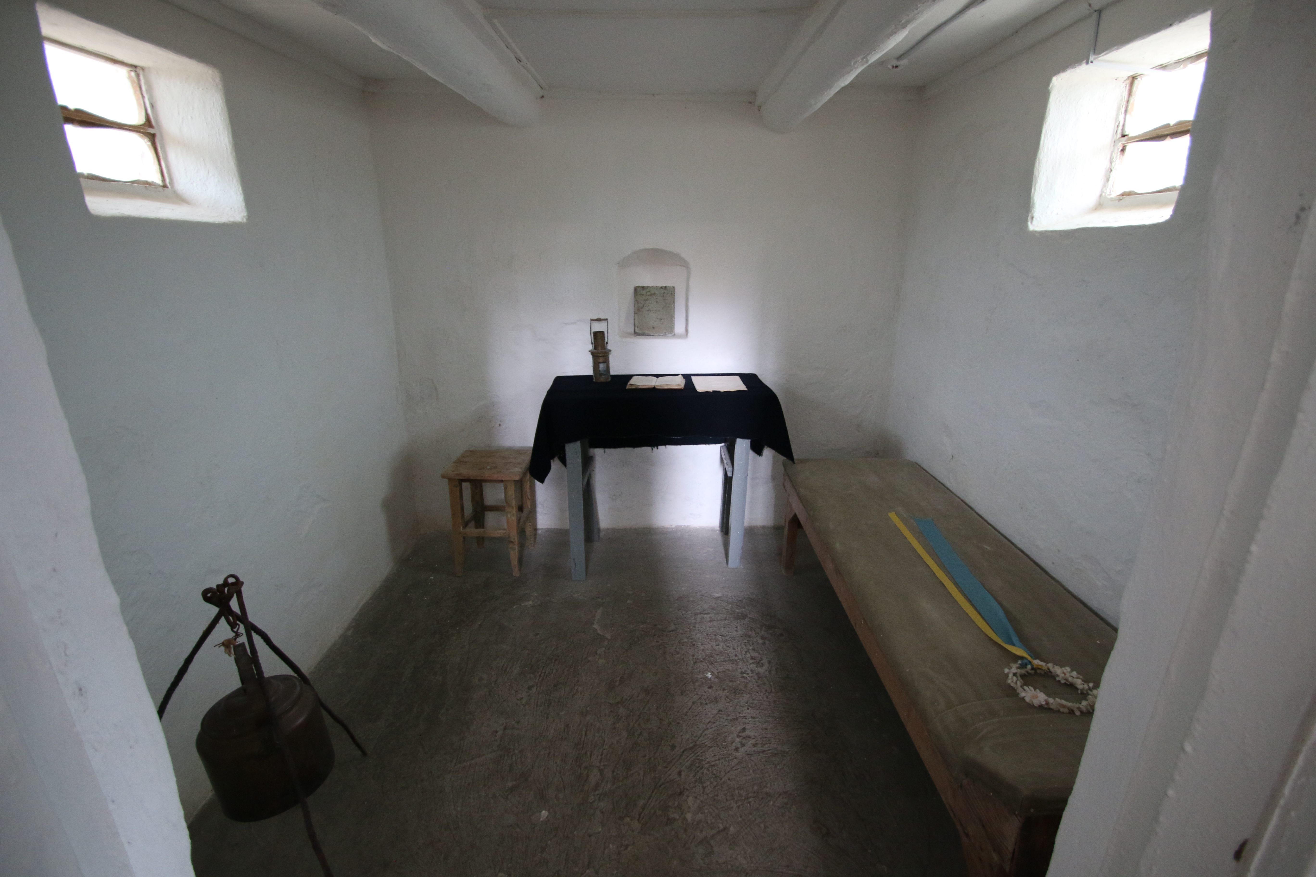 Shevchenko Pit-House